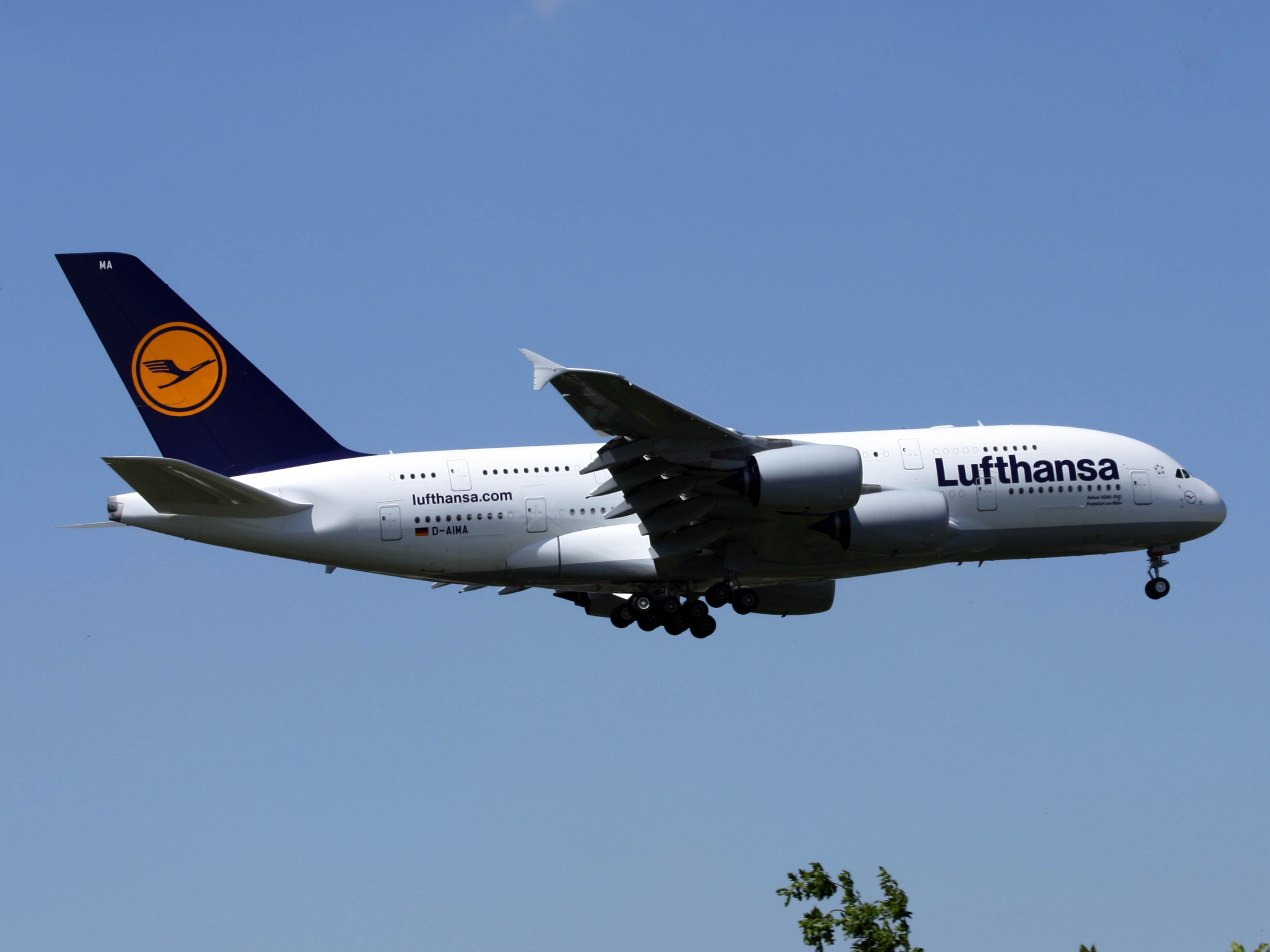 D-AIMA, 1st Lufthansa A380 at Dusseldorf International